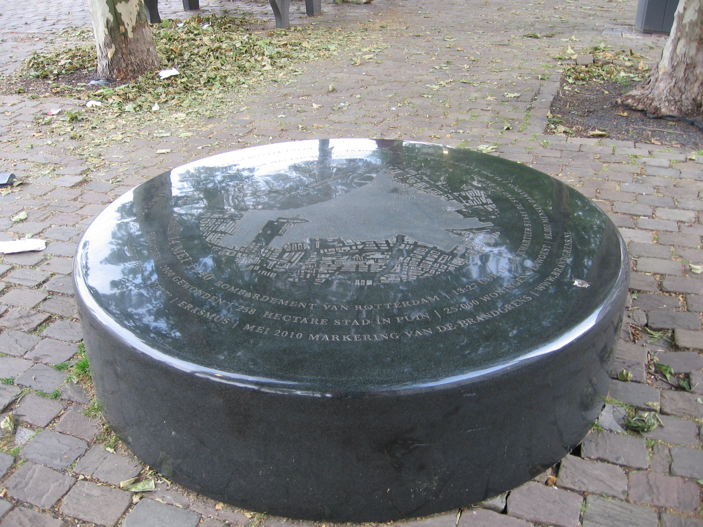 Monument for the outer limit (brandgrens, burn limit) of the damage by the German bombing of Rotterdam in 1940, Willemskade, Rotterdam.